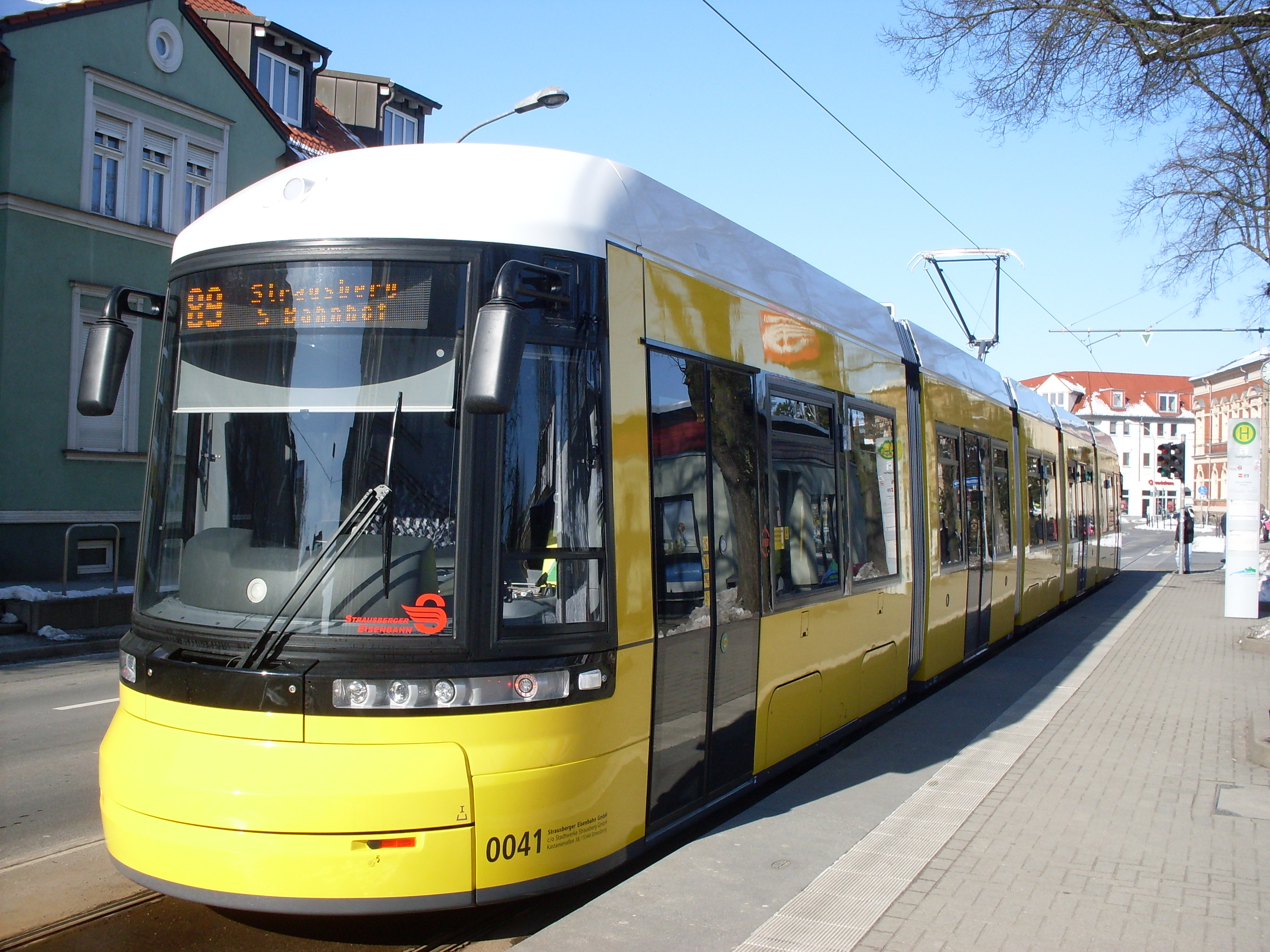 A tramway (type Bombardier Flexity) at the Lustgarten station, Strausberg